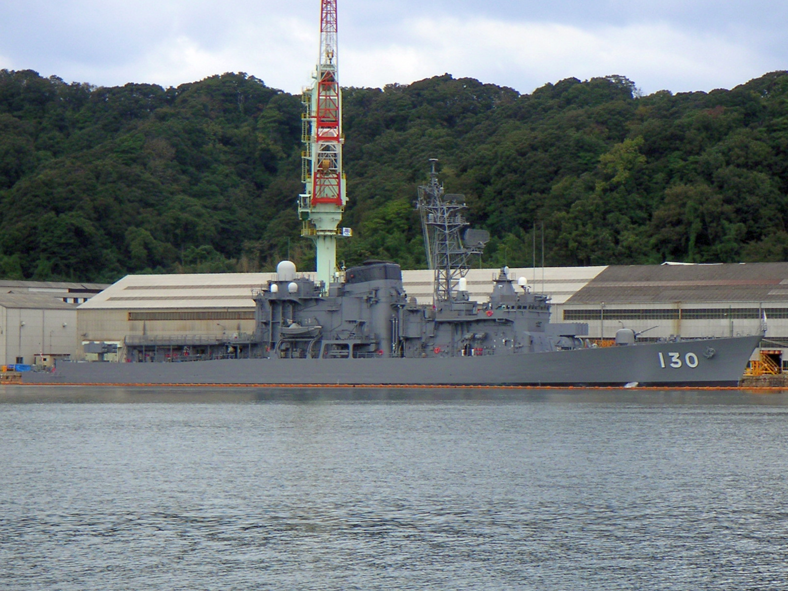 JS Matsuyuki mooring at Maizuru shipyard of Japan Marine United near the Kitakyu pier of the JMSDF Maizuru naval base.